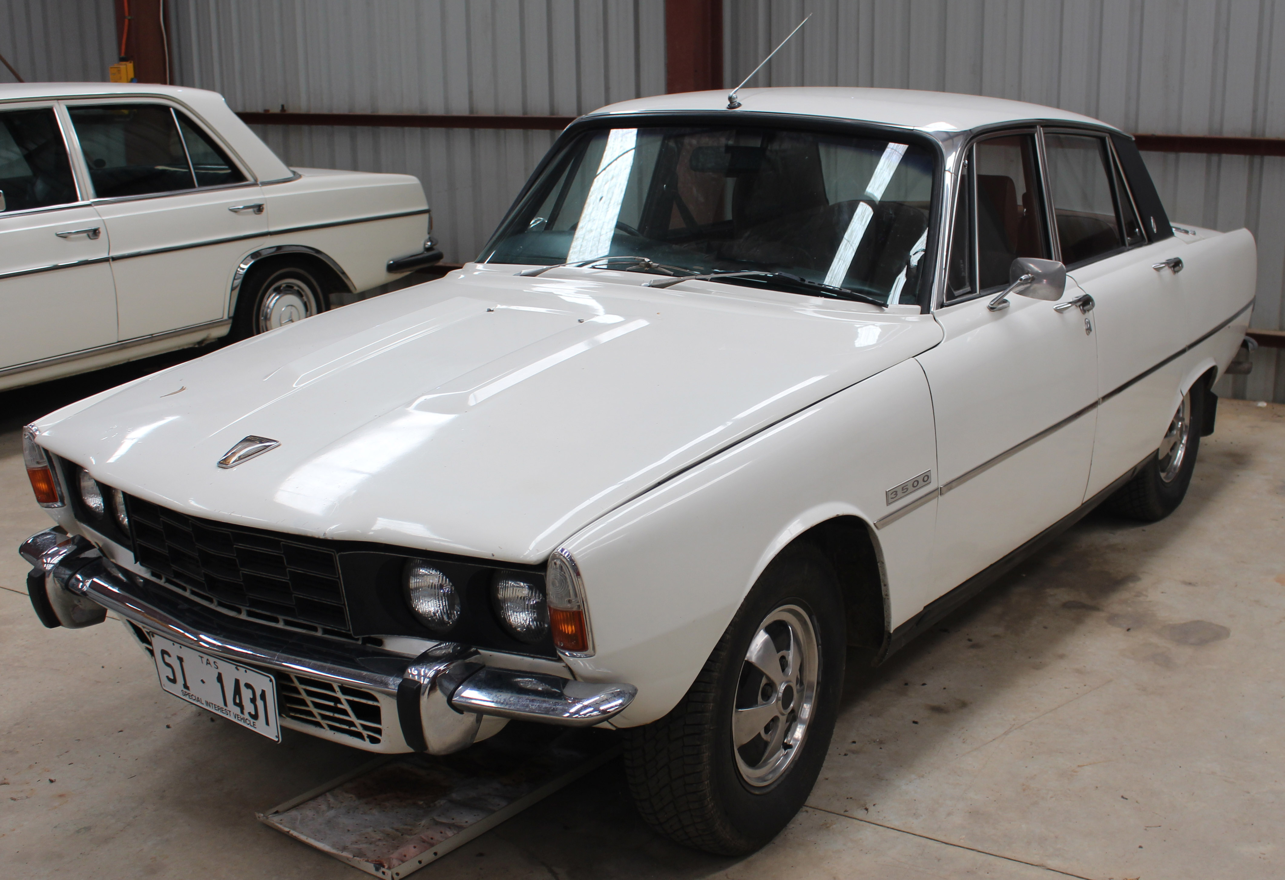 1974 Rover 3500 (P6) photographed in Zeehan, Tasmania Vehicle registration enquiry results Jurisdiction Tasmania Registration SI1431 Engine code 1051CRC4252860 Year of manufacture 1974